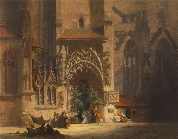 The Bride Portal of St. Sebaldus Church in Nuremberg